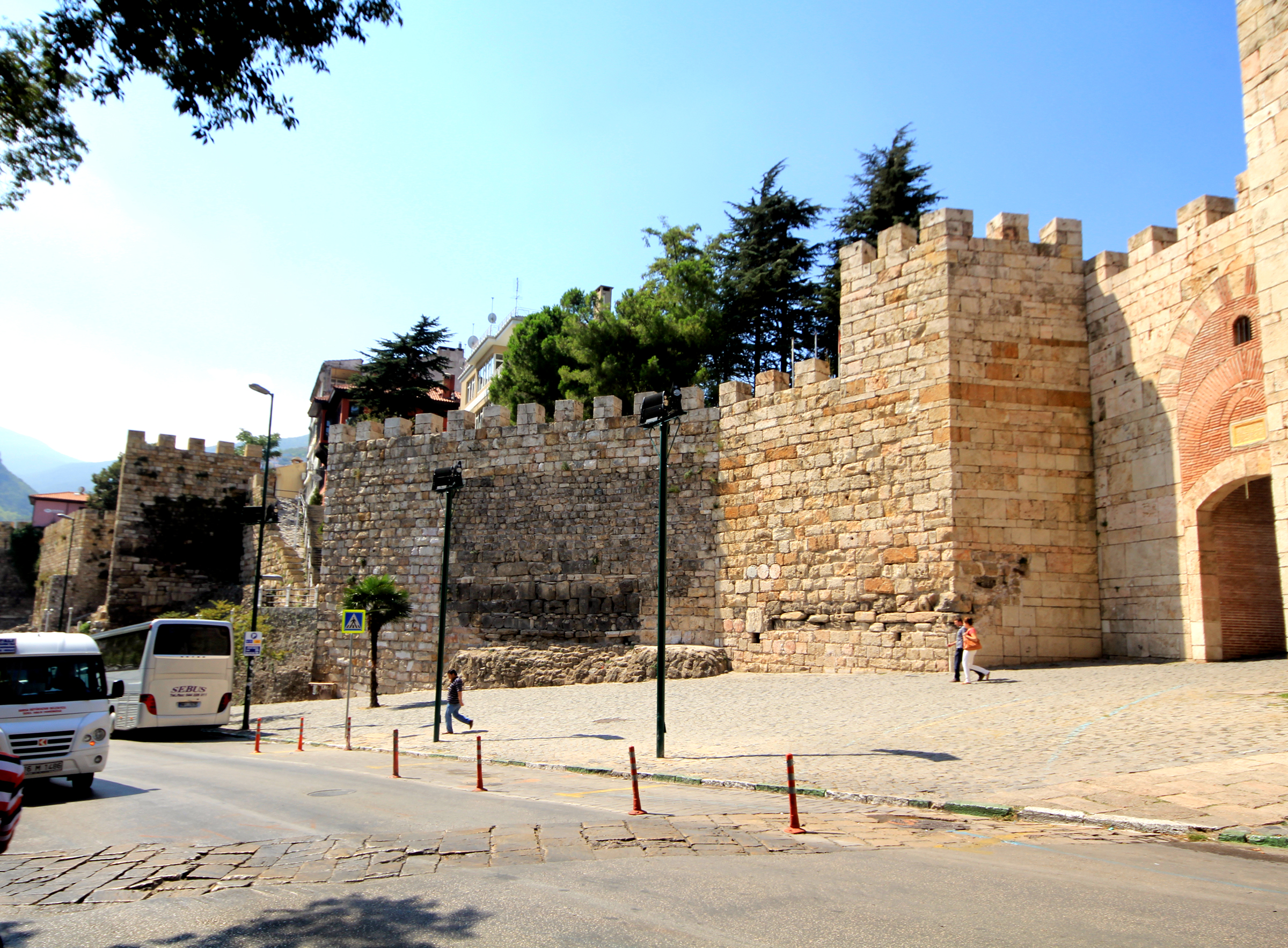 The rest of old fortification of Bursa city in Turkey